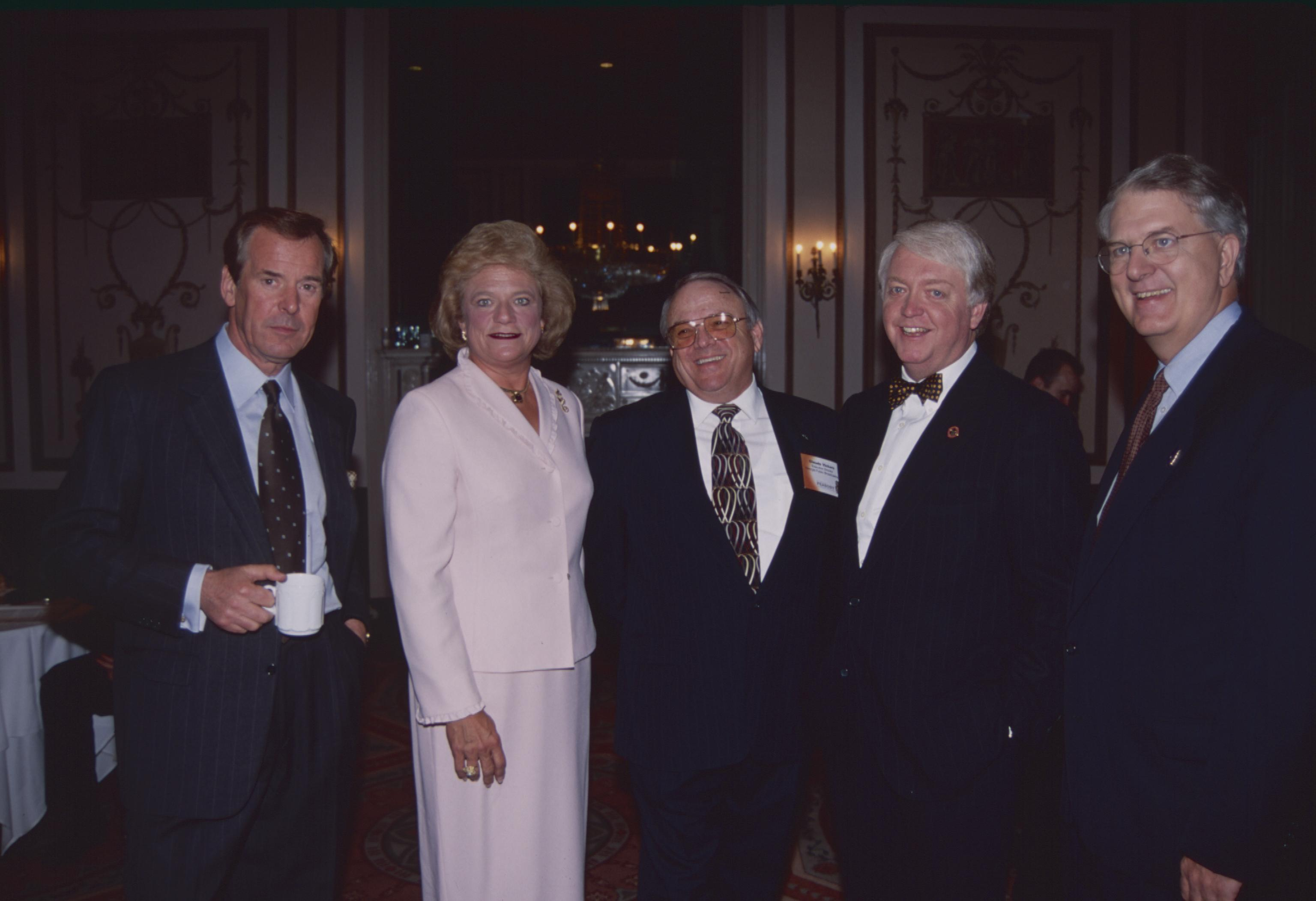 Photos by Patrick McMullan Michael F. Adams The 59th Annual Peabody Awards The Waldorf=Astoria May 22, 2000